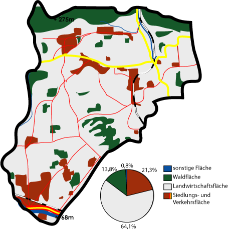 Topographical map of Rödinghausen, Kreis Herford (Germany)